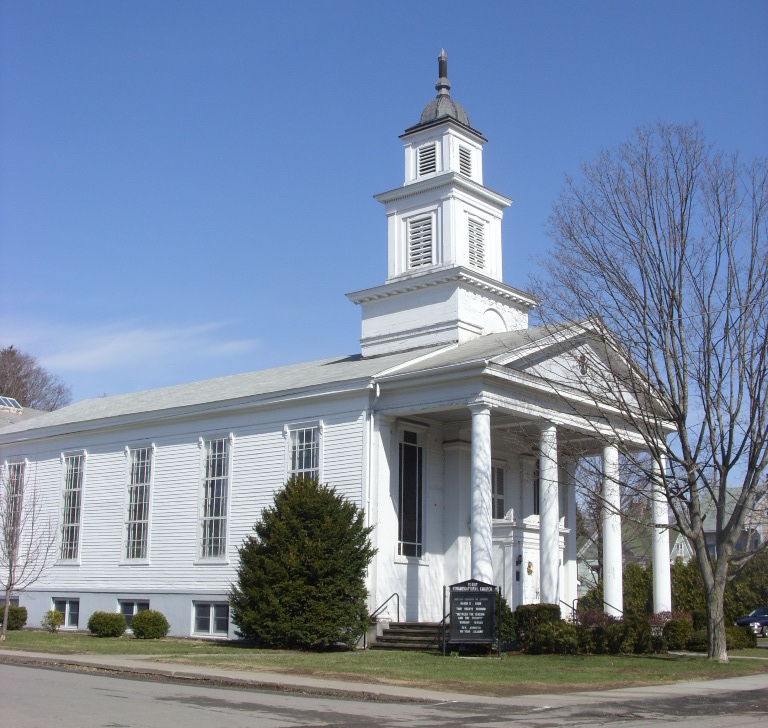 The First Congregational Church of Walton, in Walton, New York, is listed on the U.S. National Register of Historic Places.